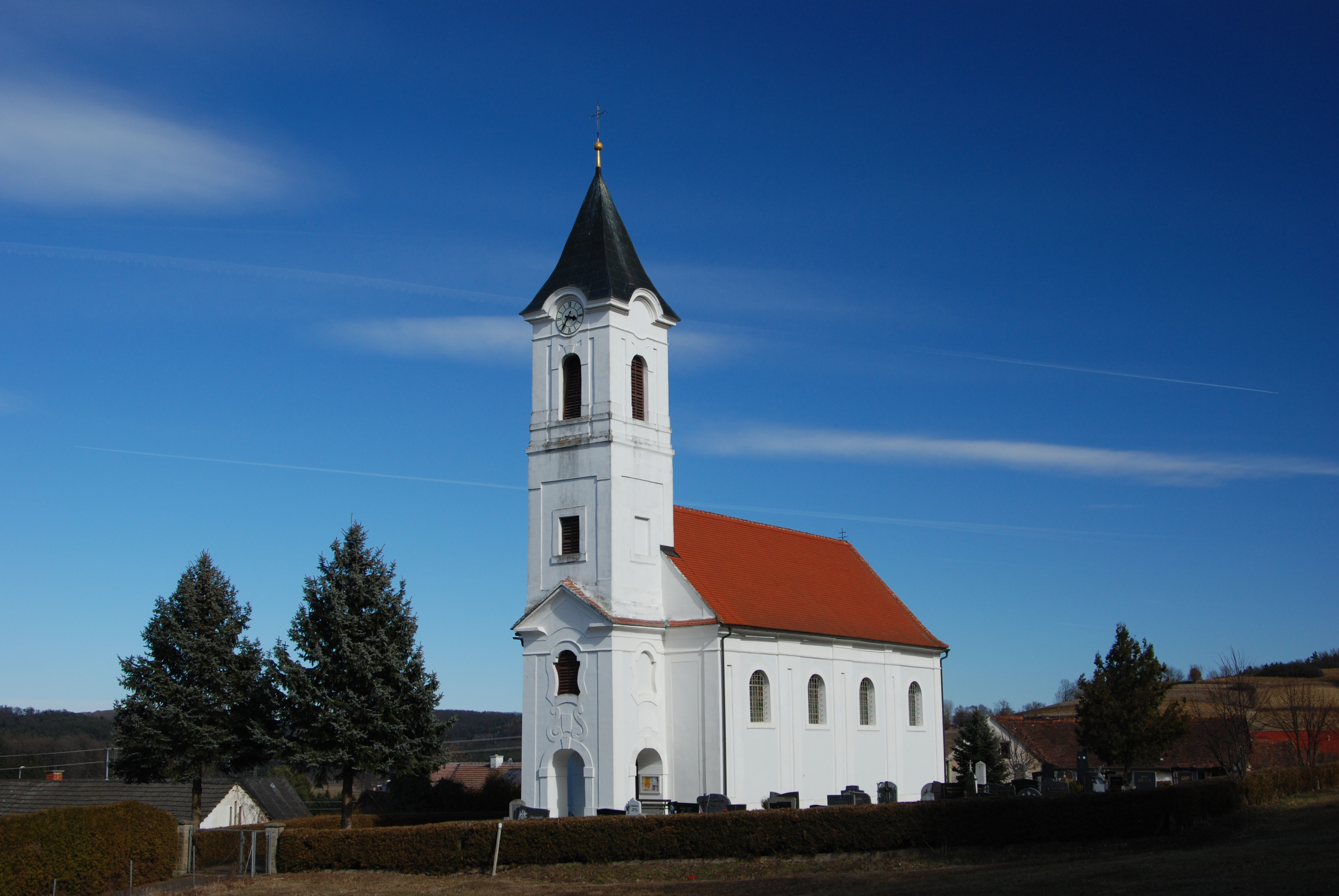 Kath. Pfarrkirche Kukmirn